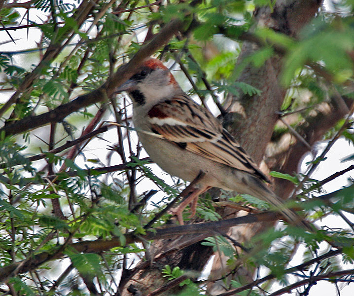 Sind Sparrow Passer pyrrhonotus at Sultanpur National Park in Gurgaon District of Haryana, India.